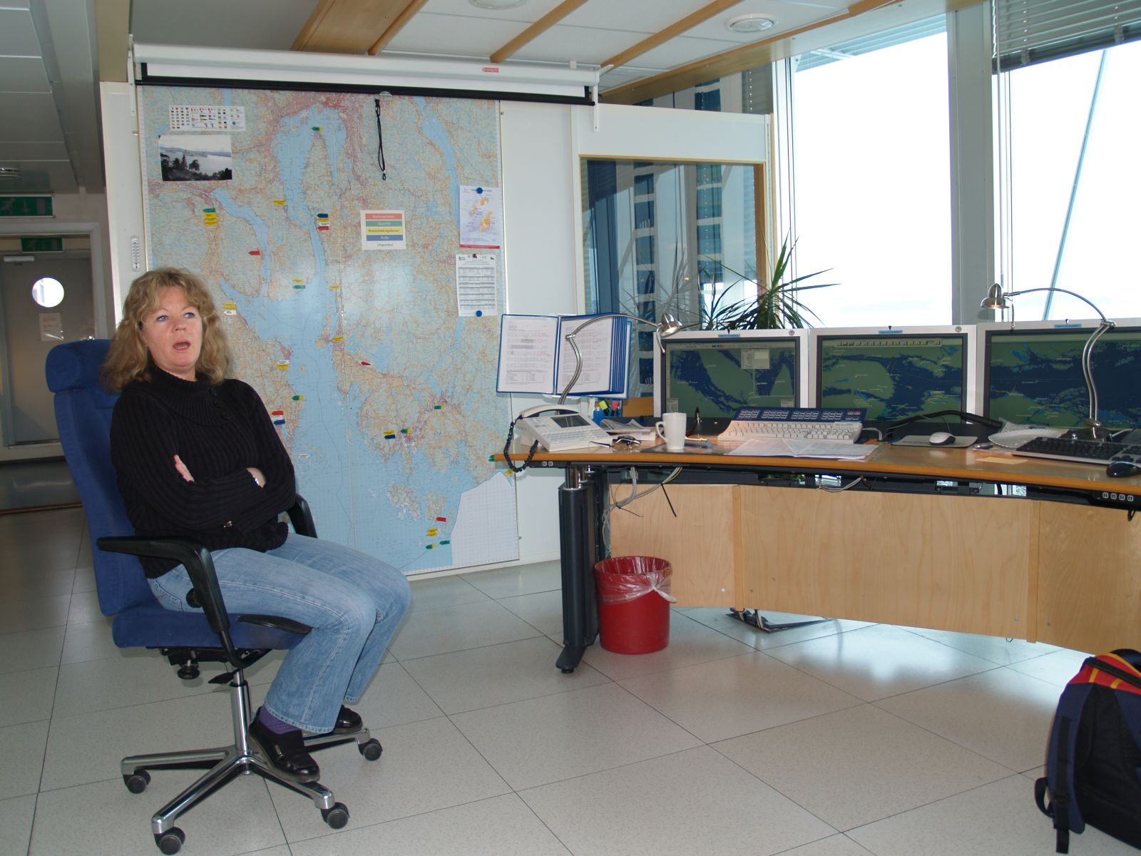 Picture from the VTS (Vessel Traffic Service) central in Horten, Norway. This is a combined VTS and Pilots central. Picture by myself, Ulf Larsen